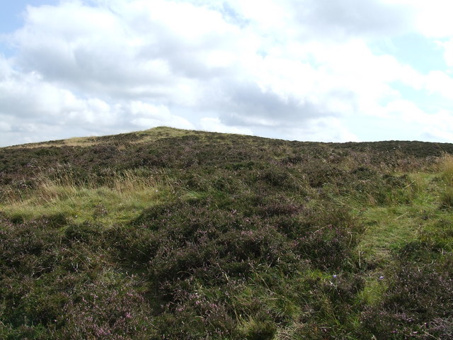 Ark Hill, Angus (OS NO356425), height 340m